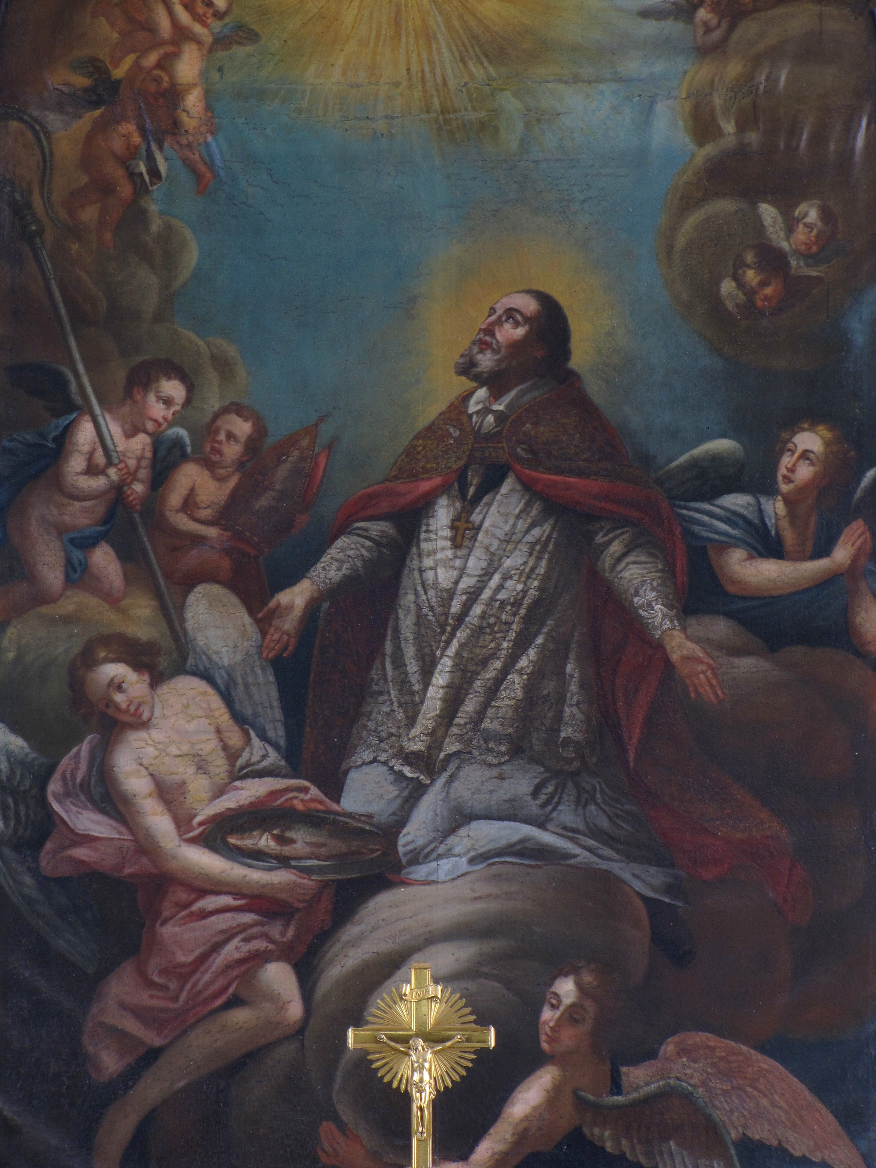 Alsace, Bas-Rhin, Oberschaeffolsheim, Église Saint-Ulrich (IA67007927). Tableau du maître-autel "Saint-Ulrich" (huile sur toile, 1783): This object is inscrit Monument Historique in the base Palissy, database of the French furniture patrimony of the French ministry of culture, under the references PM67001500 and IM67010846.